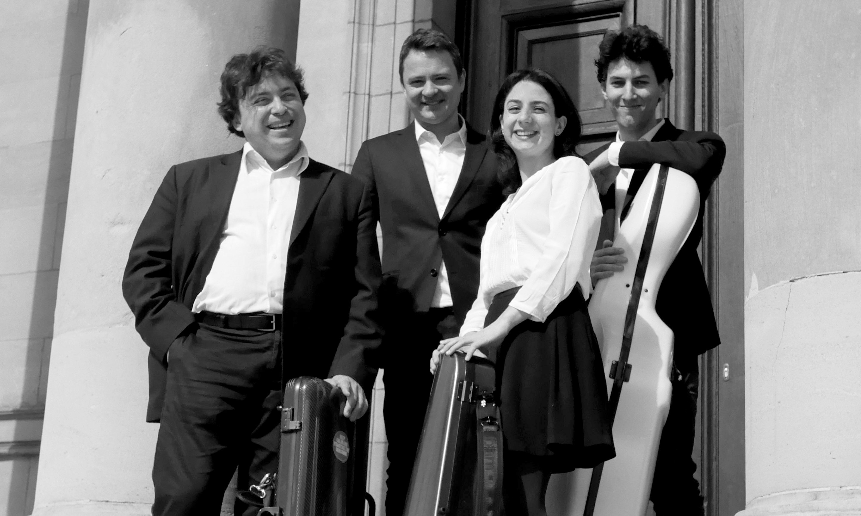 Sergey Ostrovsky, violin I Philippe Villafranca, violin II Noémie Bialobroda, viola Daniel Mitnitsky, cello